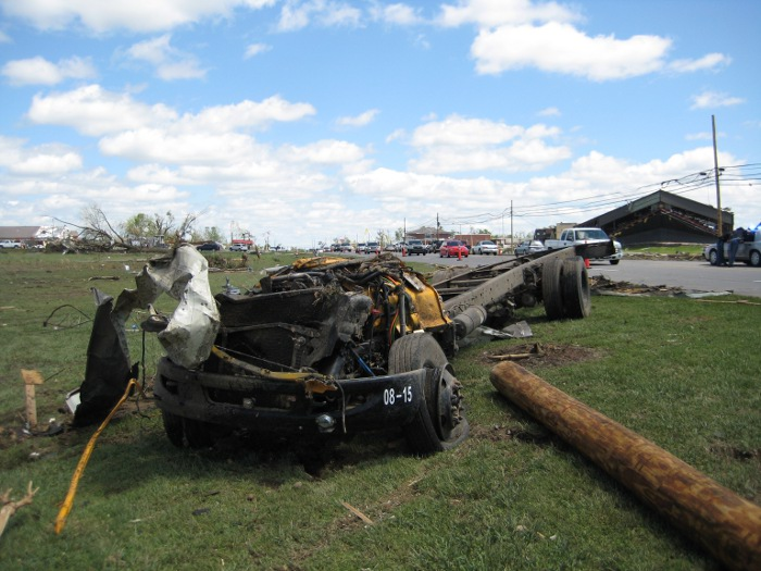 Remains of a school bus in Rainsville after being tossed by the tornado.